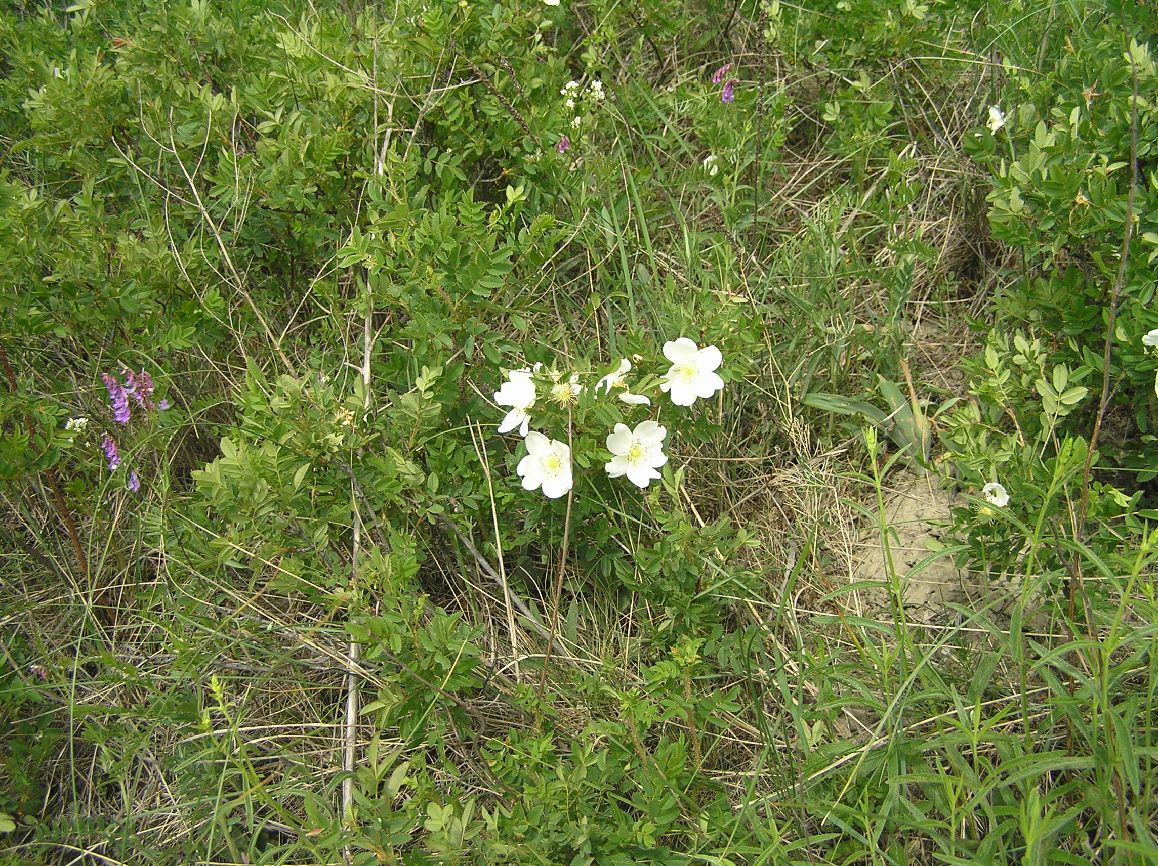 Rosa spinossisima, Pouzdřany, Southern Moravia, Czech Republic